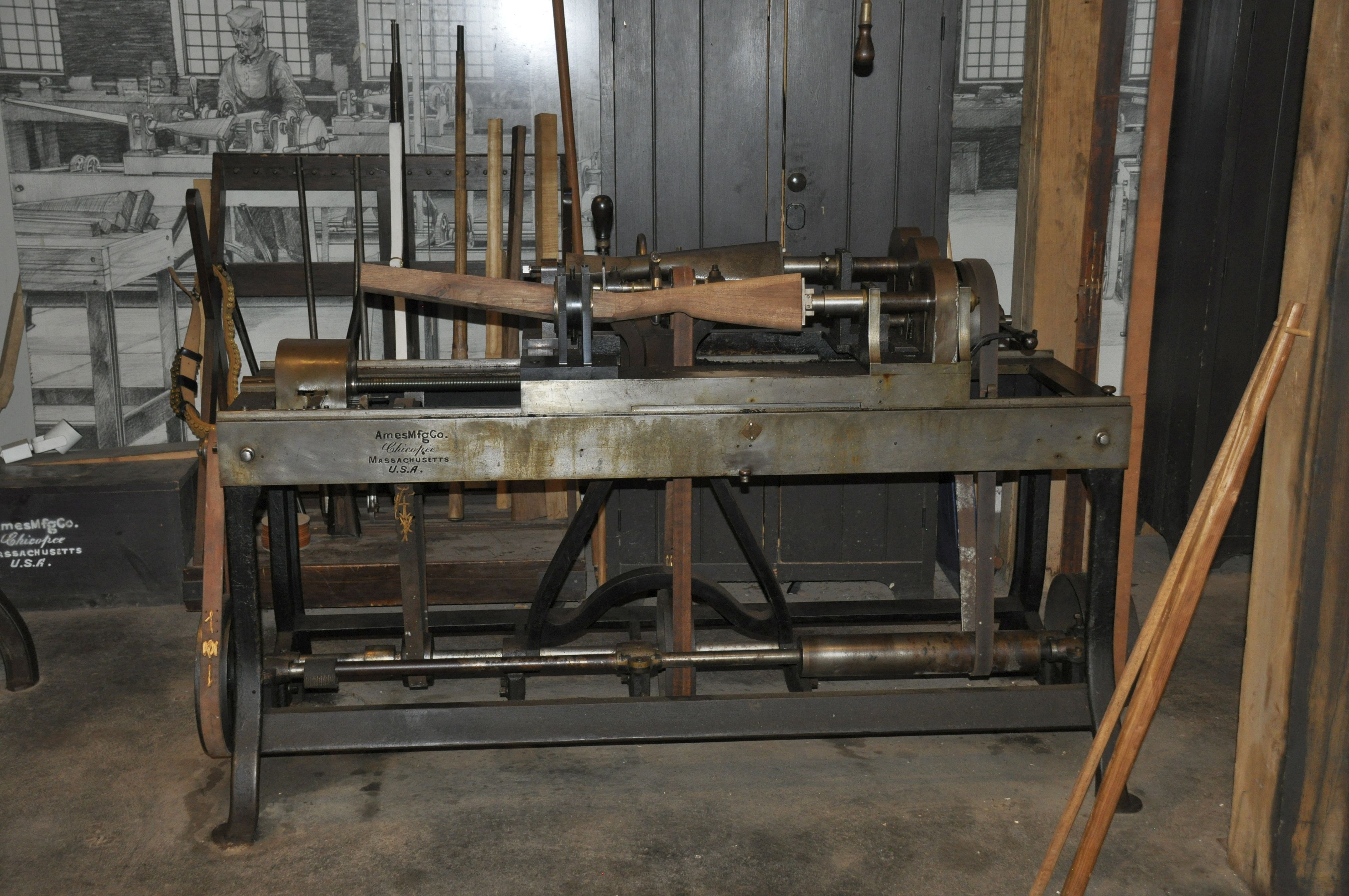 Harpers Ferry Armory gunsmith shop had machines for production of the lock, the stock and the barrel. The machines are from the 1850s and are all powered by water. The power is transmitted to the machine by a set of pulleys and leather belts. This machine is a Duplicating or Blanchard lathe used to create stock identical to a pattern.